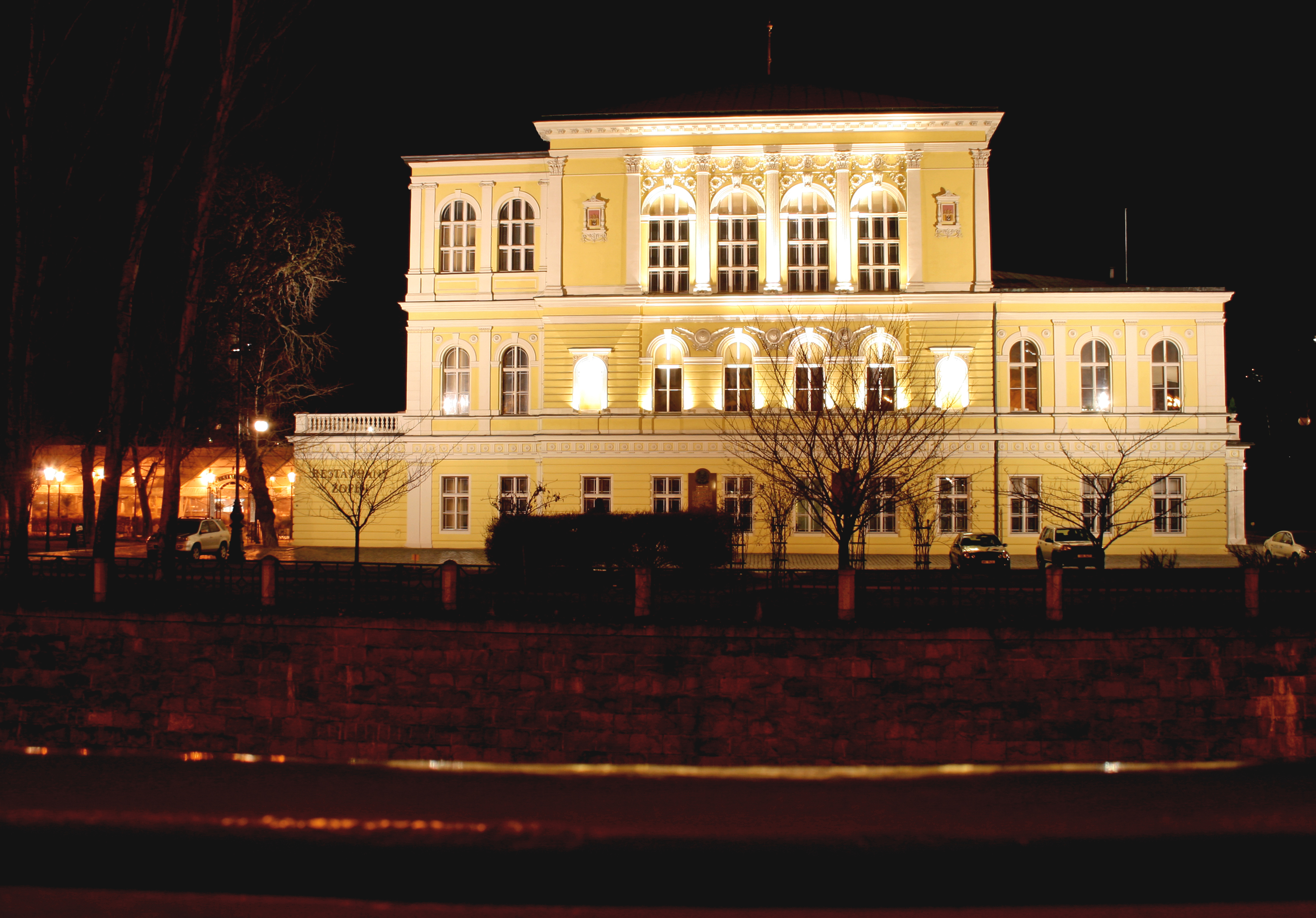 Žofín building on Slovanský ostrov island, Prague, Czech Republic